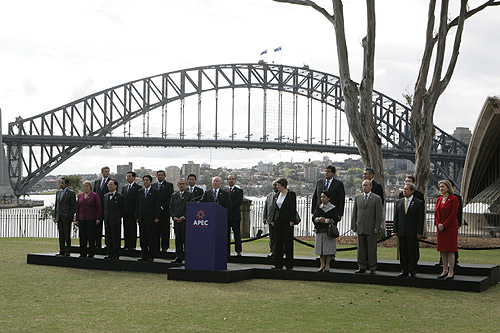 SYDNEY. Reading the final declaration of the participants in the APEC summit.